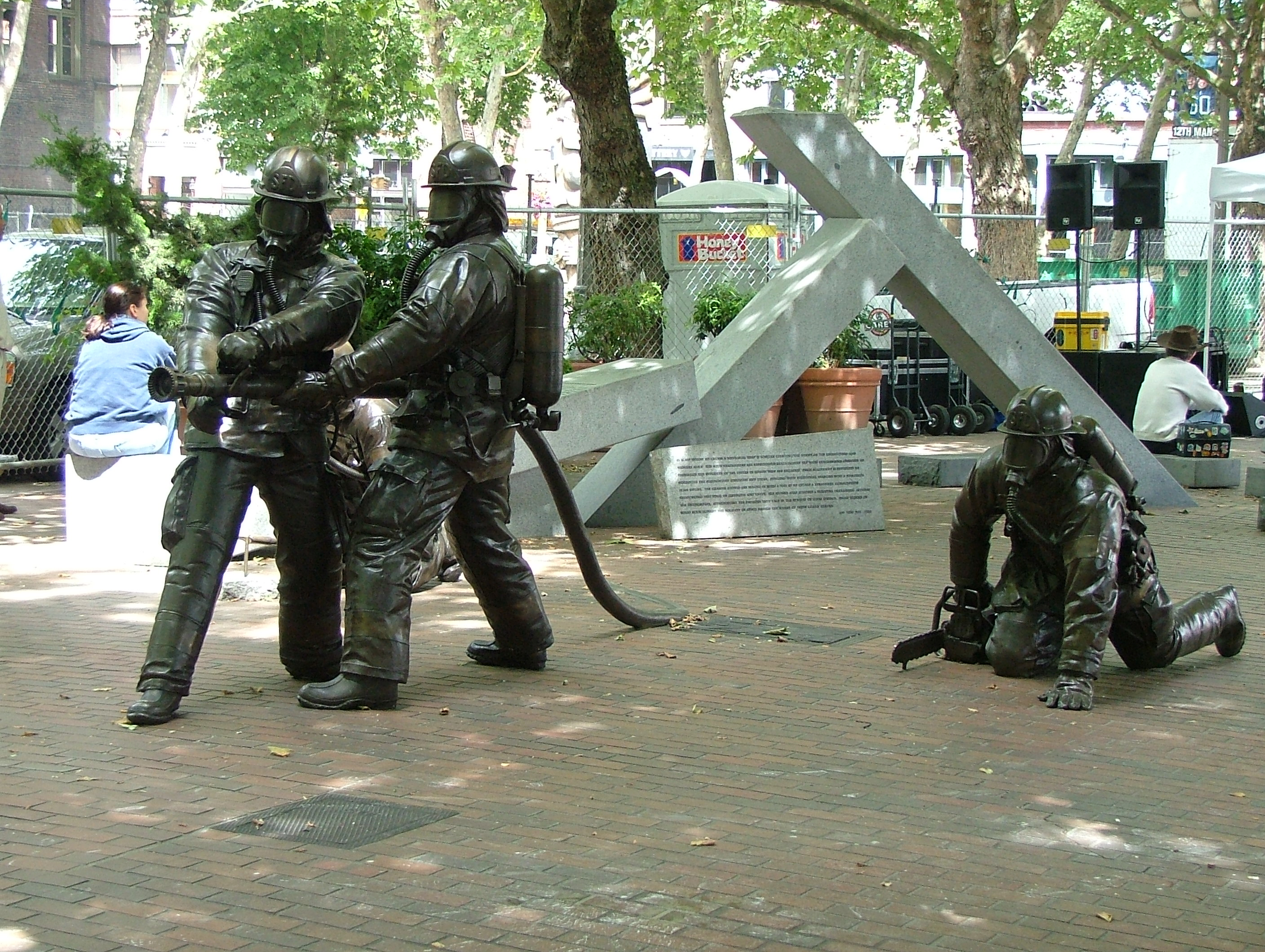 Firefighter Statue, Occidental Park, Seattle